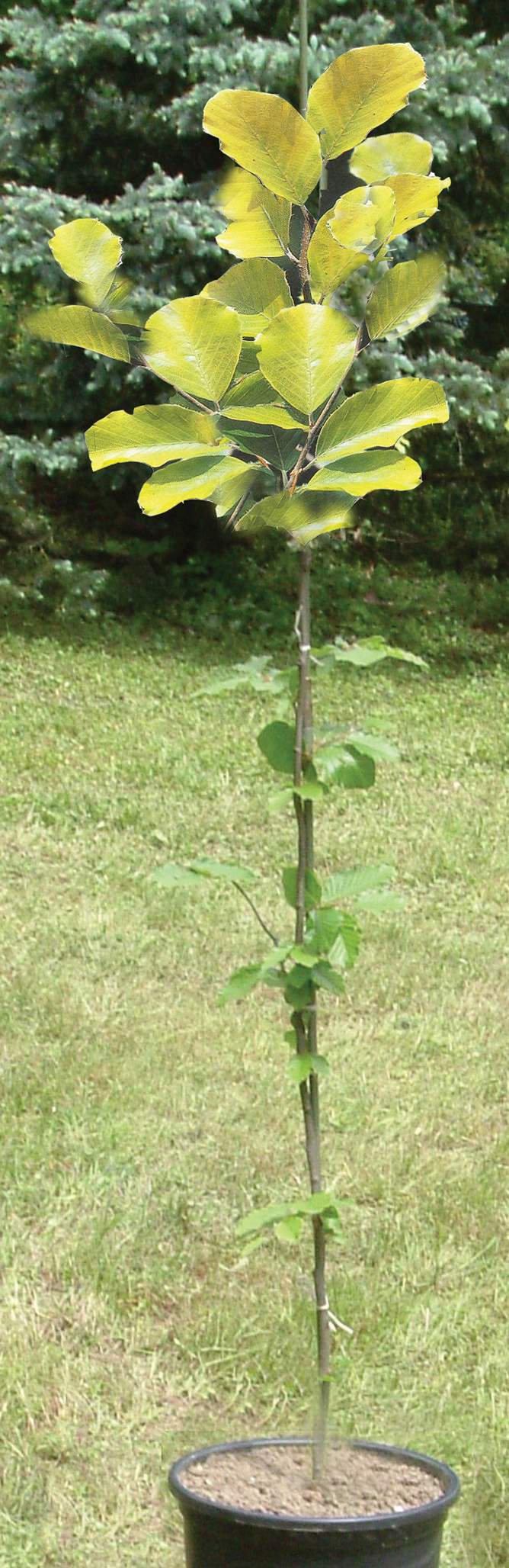 Vegetative copies of Moesian beech with golden-yellow leaves (Fagus moesiaca (K. Maly) Czecz. var. aurea serbica Tošić). (Photo M. Tosic)